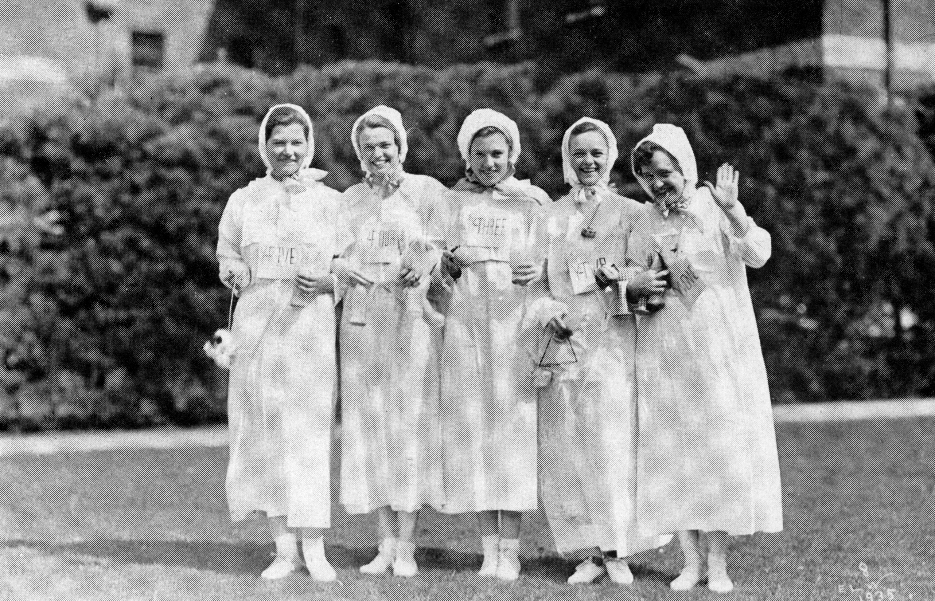 Five women dressed in what look like white nightgowns and bonnets, each holding a number (L-R, five-one) on Founder's Day on the campus of Vassar College in the town of Poughkeepsie, new York.